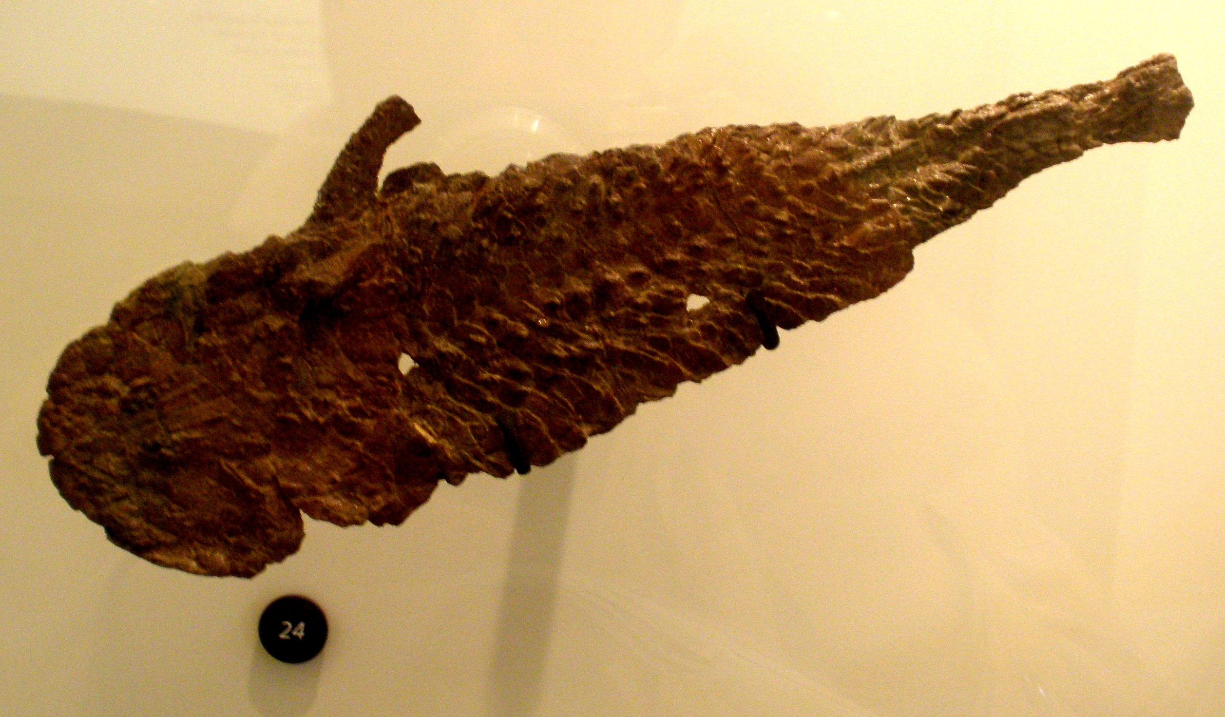 Skeleton of Ectosteorhachis, a fossil sarcopterygian Skeleton of Ectosteorhachis, a fossil sarcopterygian